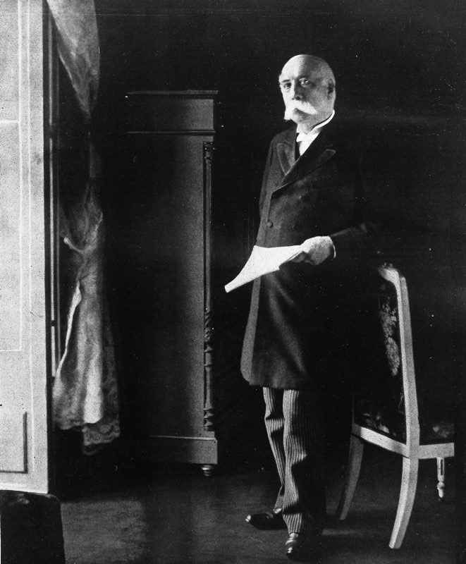 Italian Prime Minister Francesco Crispi (1818-1901).